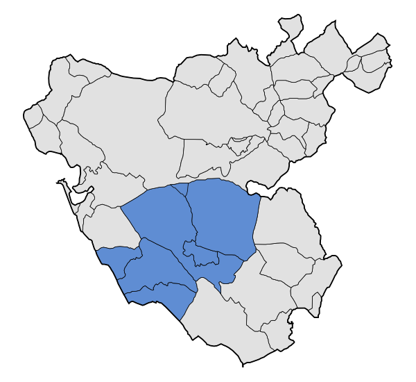 Map of La Janda region, on province of Cádiz